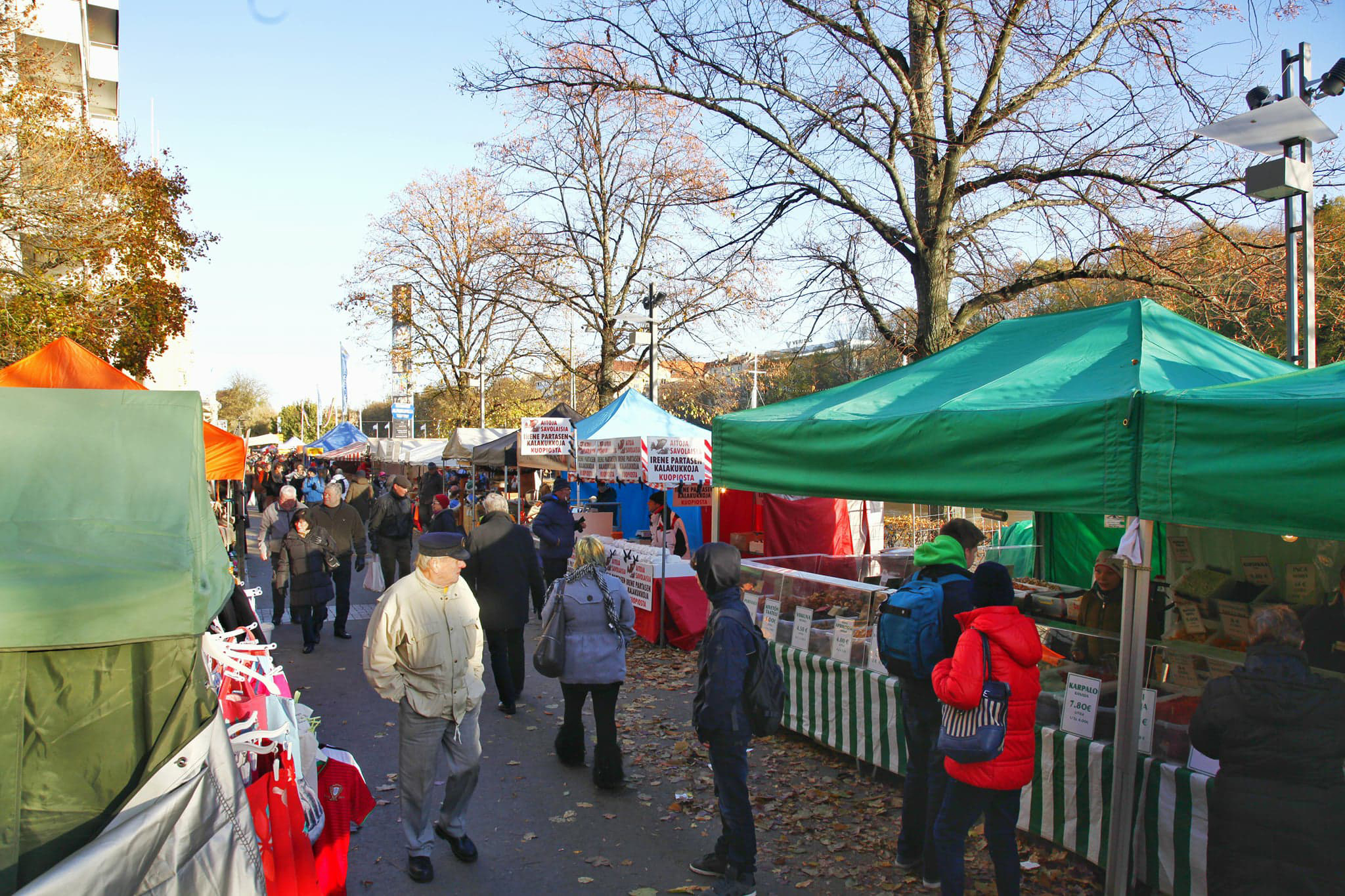 Herring market in Turku Finland 2014